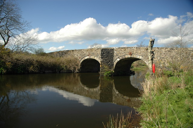 St Catherines Bridge. St Catherines Bridge, between Tangiers & Upper Calffield, Haverfordwest